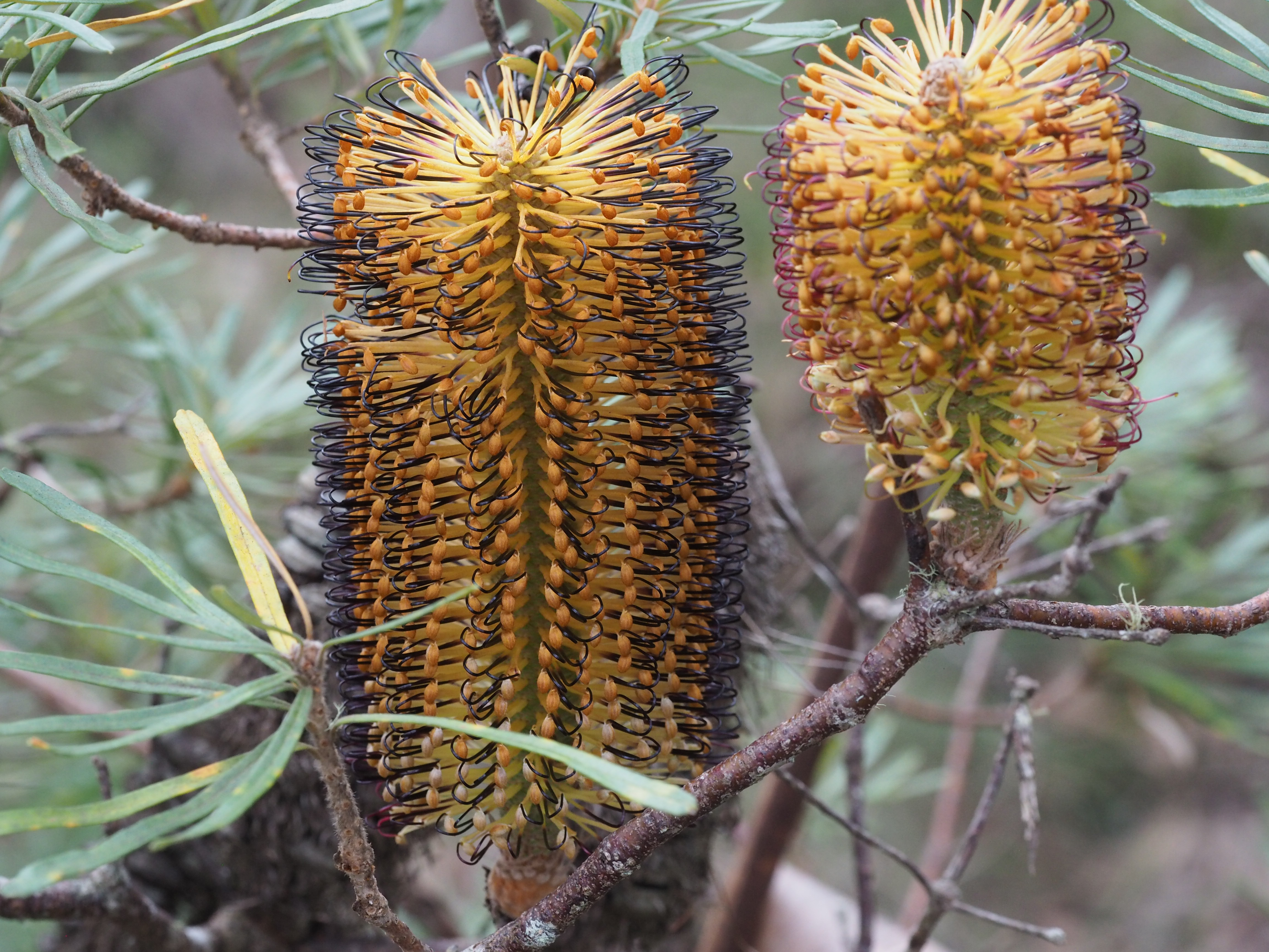 Banksia neoanglica (flowers) at the type location (Waterfall Way, 0.9km north of New England National Park turnoff)